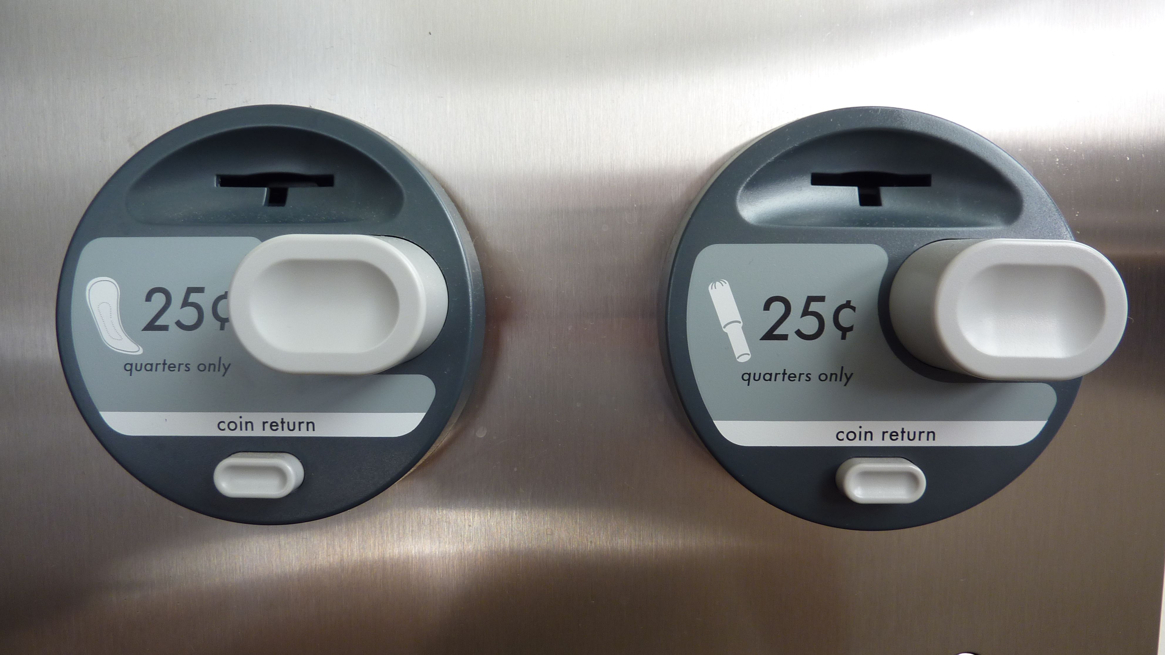 new tampon dispensers in the AFI women's bathroom! by Elizabeth Van Dam